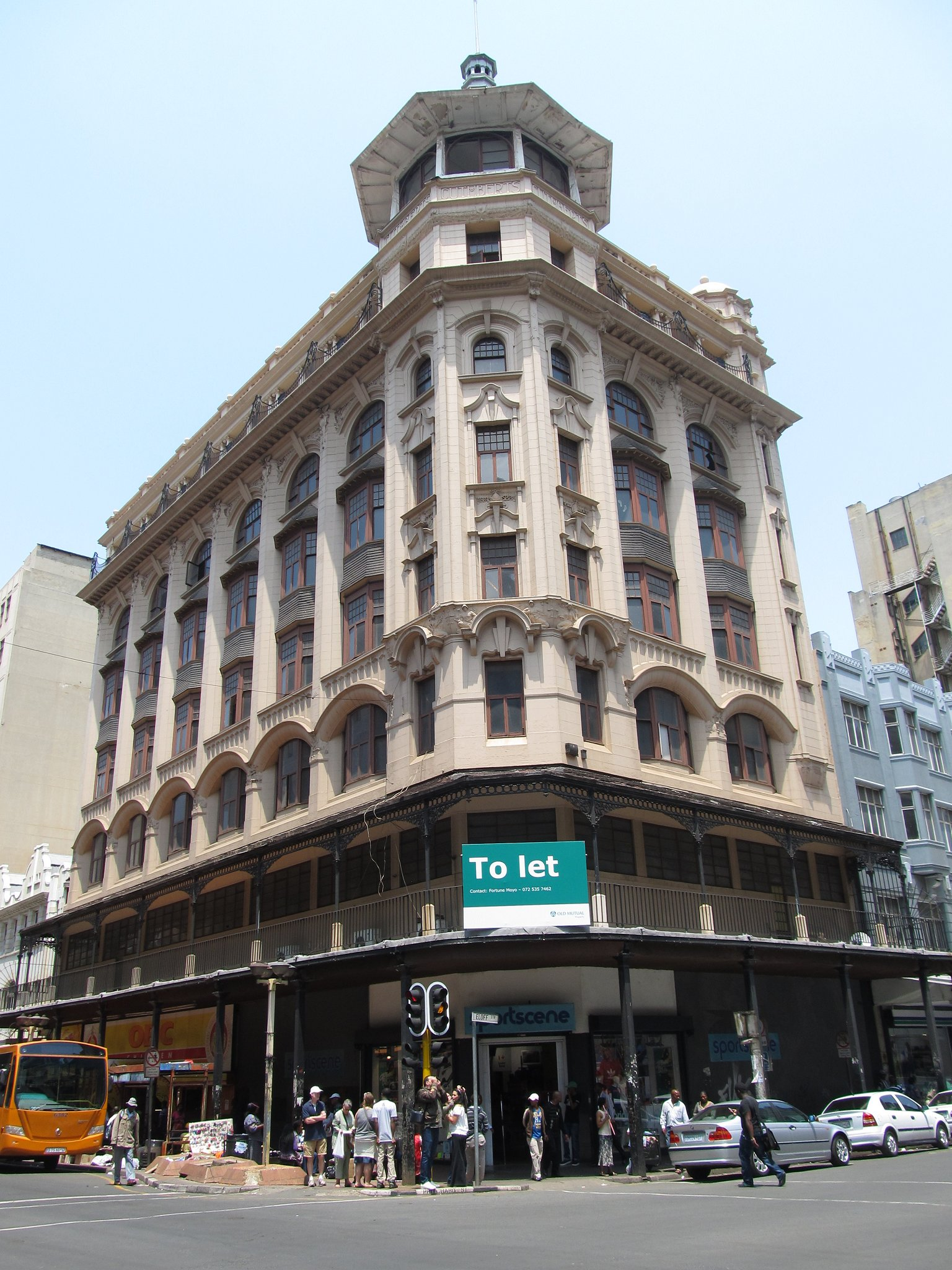 This media shows a South African Protected Site with SAHRA file reference 9/2/228/0099. The firm of WM Cuthbert & Co, shoe merchants, was established in 1882. Their Johannesburg building was designed by architects Stucke & Bannister and was completed in 1904. It rapidly became a major landmark in the mining town and retains many of its Victorian details. It was declared a National Monument under old NMC legislation on 27 June 1986.